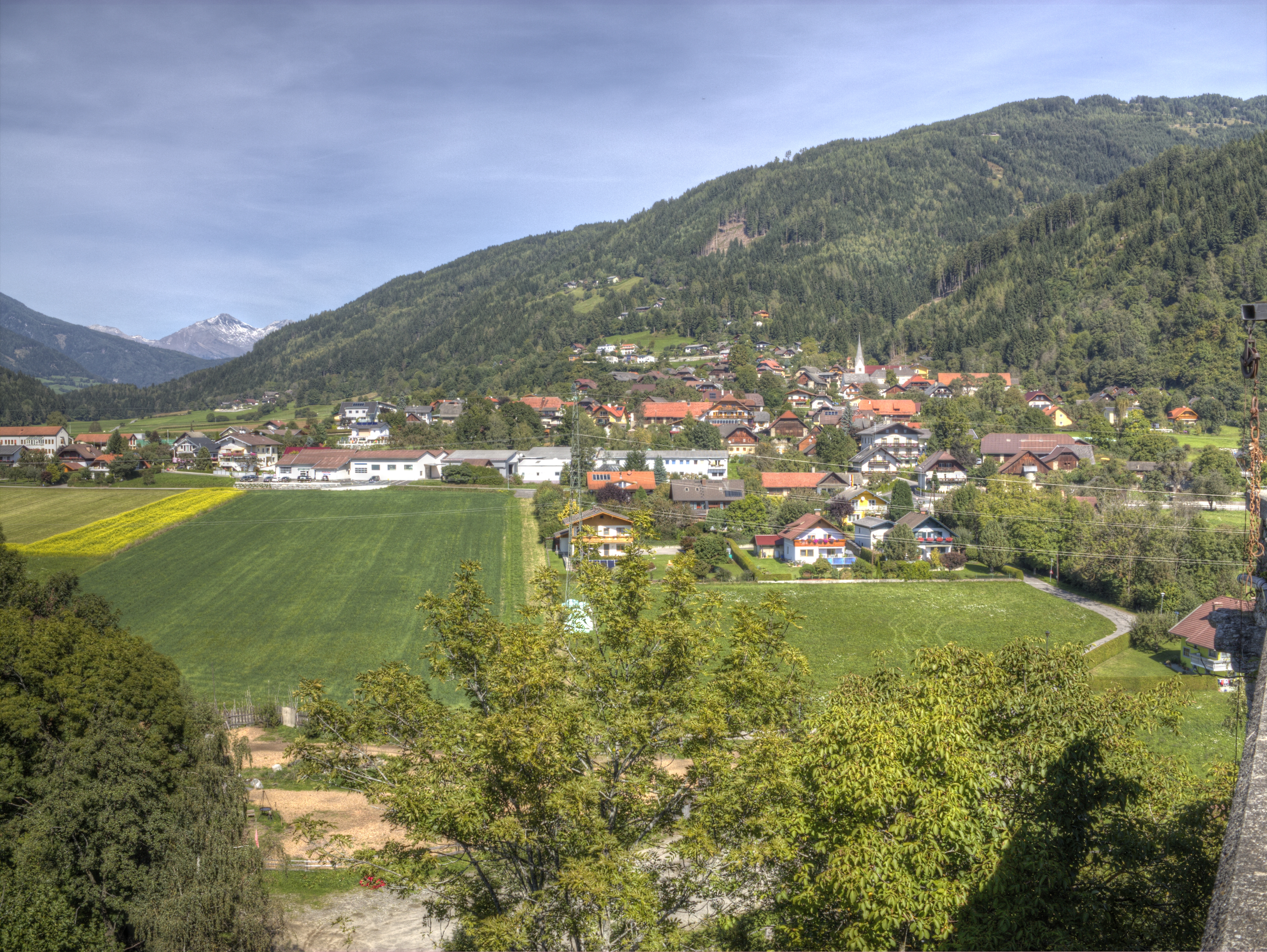 View from Castle Sommeregg toward village Treffling, a village near lake Millstatt (Millstätter See) / Spittal an der Drau / Carinthia / Austria / Central Europe.